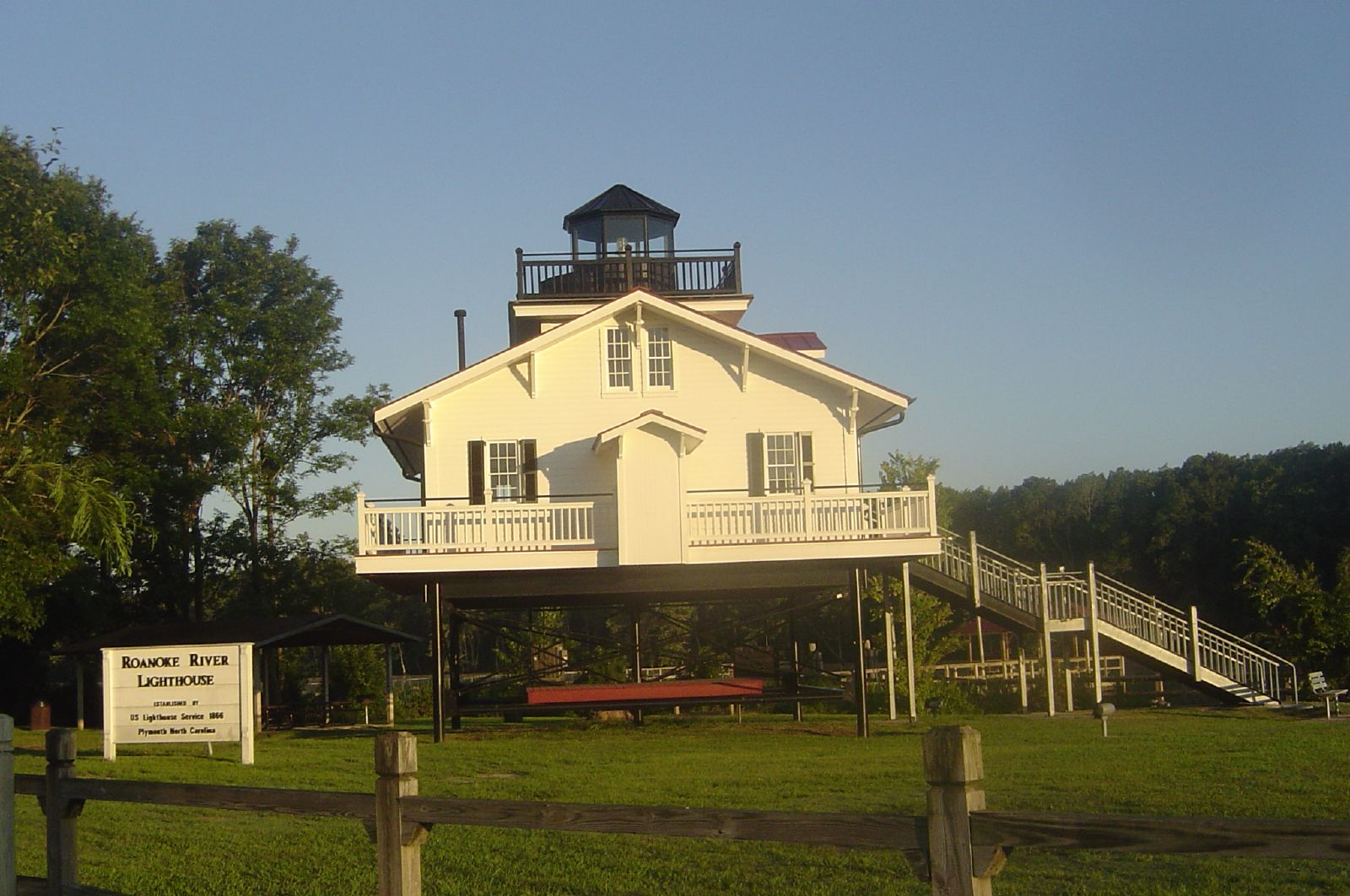 Replica of the Roanoke River Lighthouse, built at Plymouth, North Carolina, USA in 2001-3, see Roanoke River LightNCarolina-037